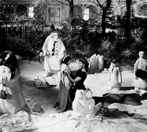 Promotional still from the 1944 film Meet Me in St. Louis, published in New Movies, the National Board of Review Magazine